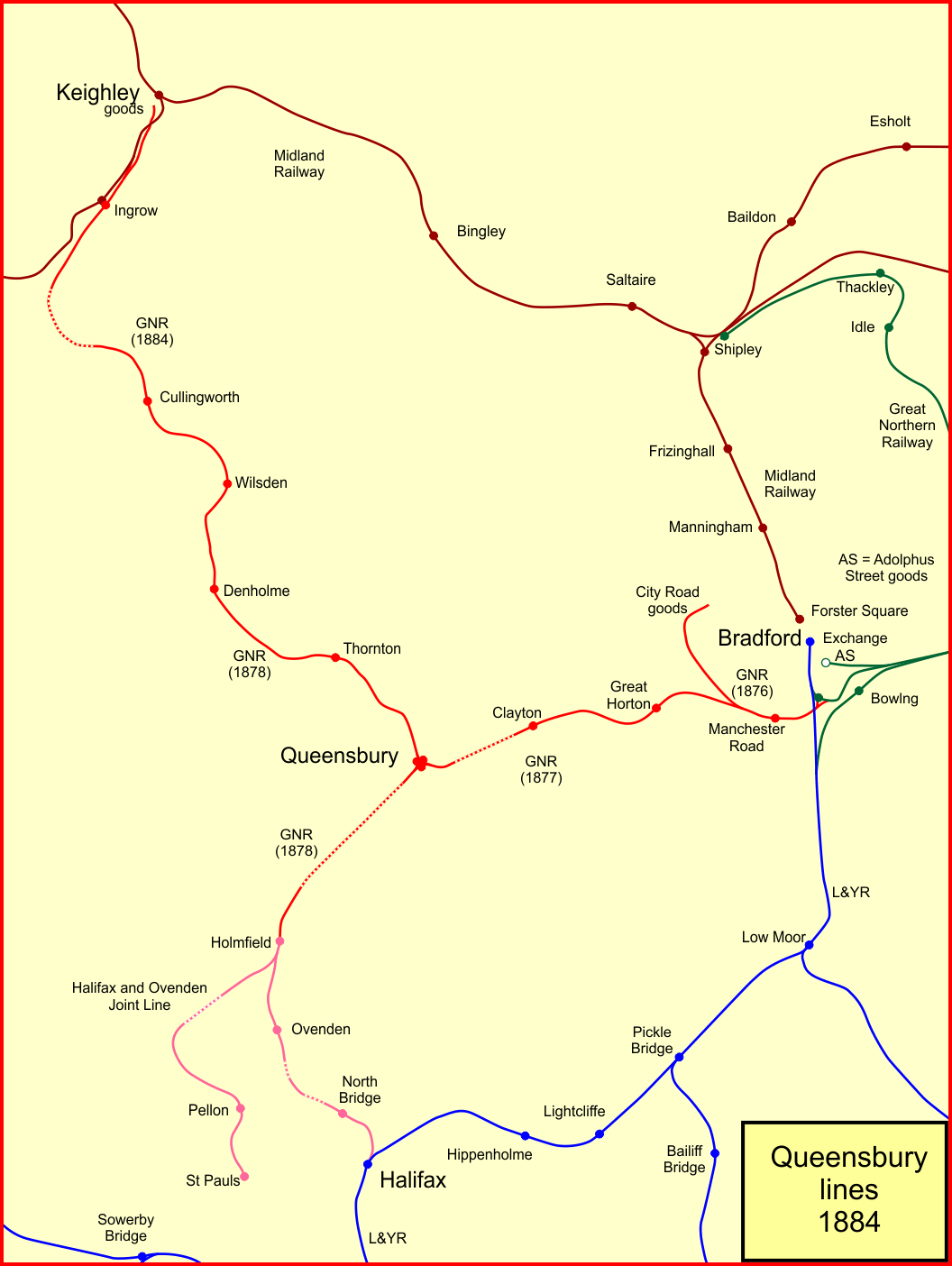 System map of the railways around Queensbury, West Yorkshire, England, in 1884